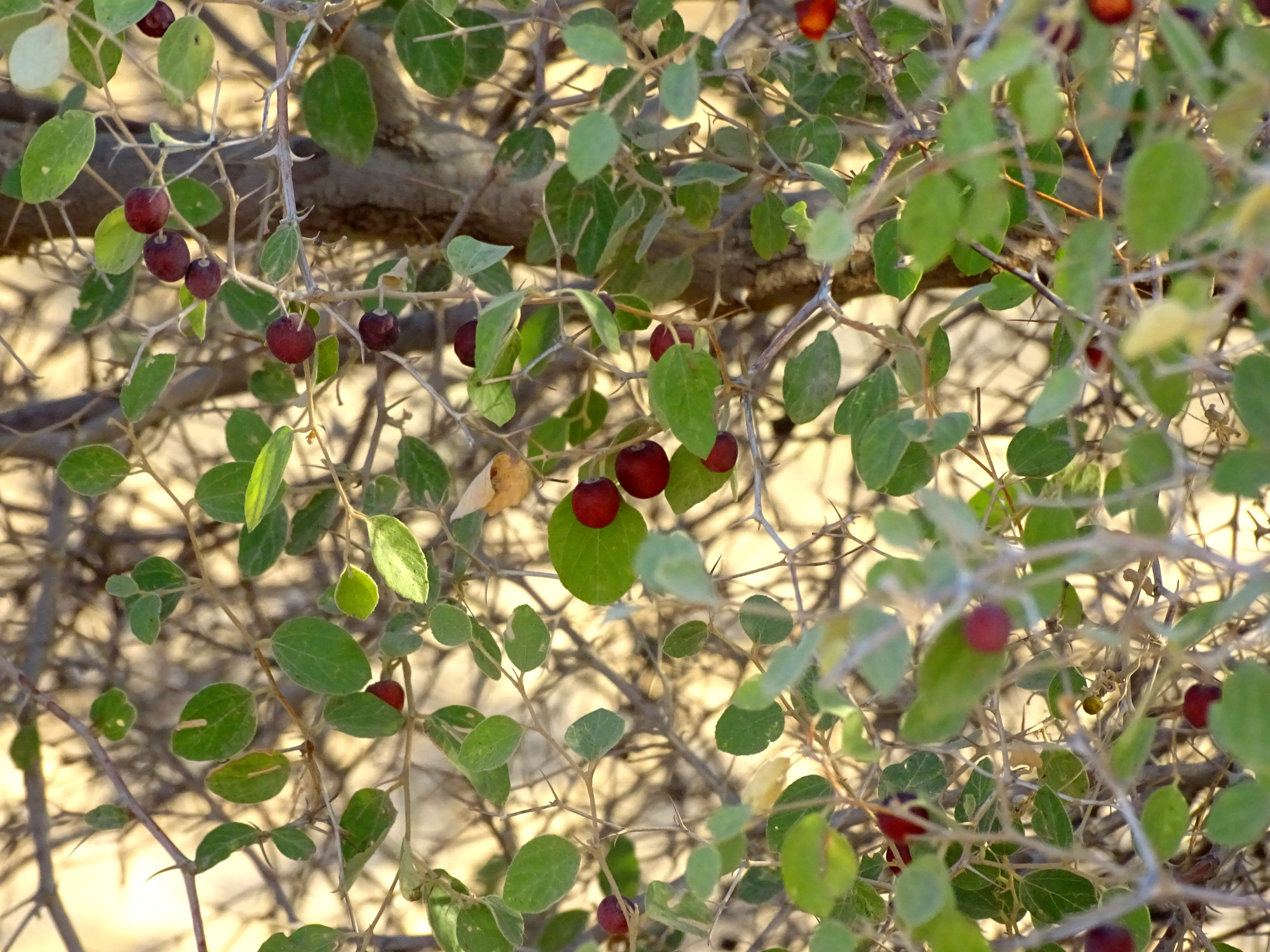 Ziziphus nummularia (jujube bush) seen in Jaisalmer desert park.